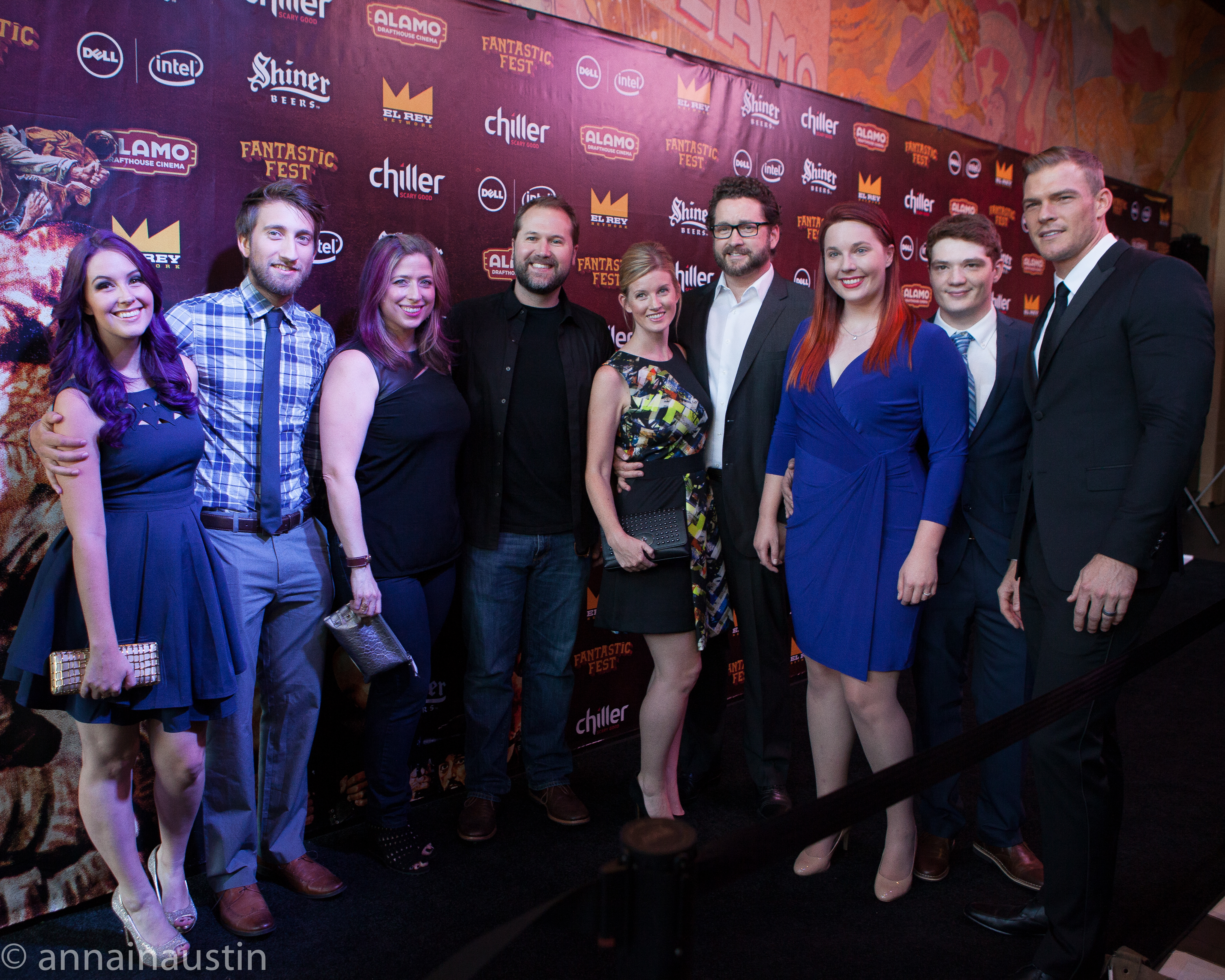 The cast of Lazer Team and their significant others on the red carpet at the film's premiere at Fantastic Fest 2015. From left to right, pictured is Meg Turney, Gavin Free, Anna Hullum, Matt Hullum, Ashley Jenkins, Burnie Burns, Lindsay Jones, Michael Jones, and Alan Ritchson.